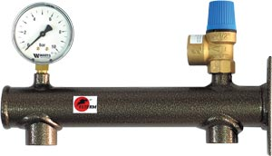 Safety units for hot utility water systems